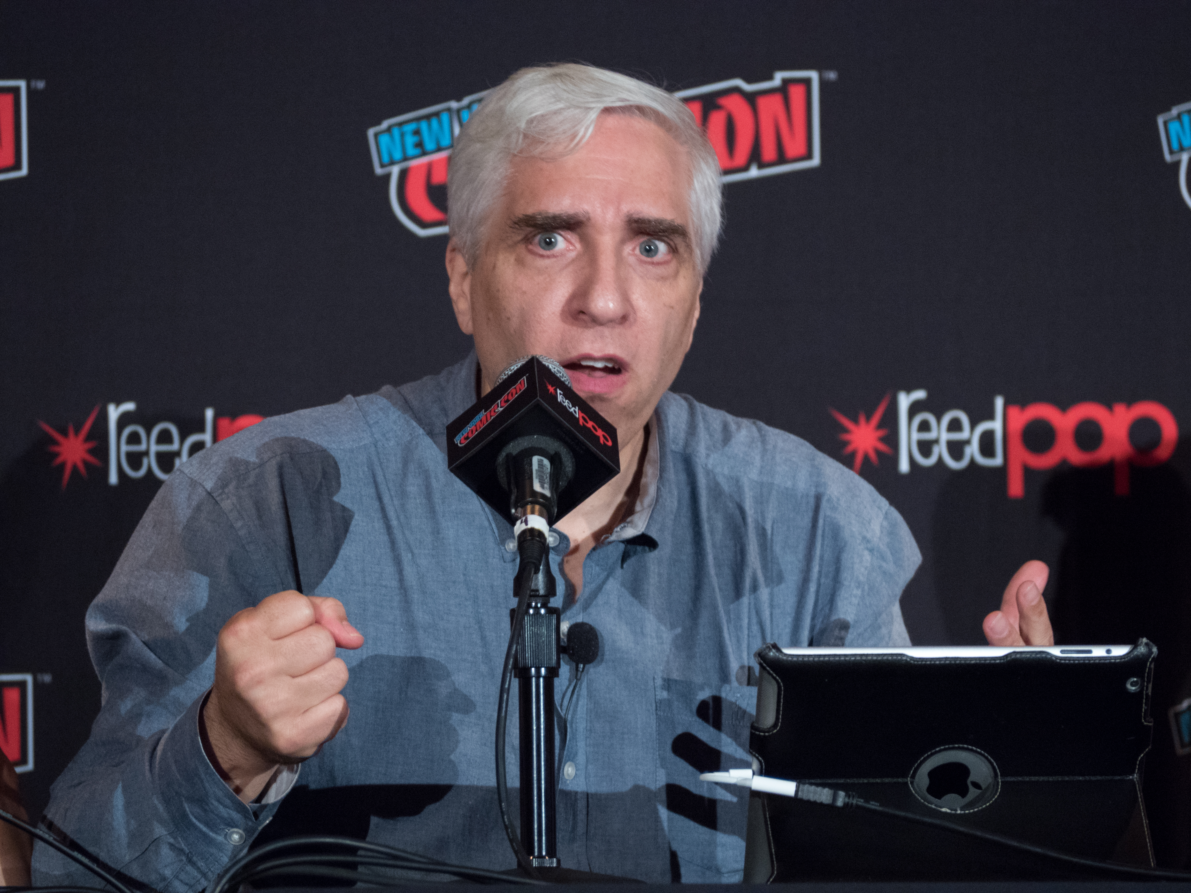 Steve Novella on the Science or Fiction panel at New York Comic Con in October 2018.